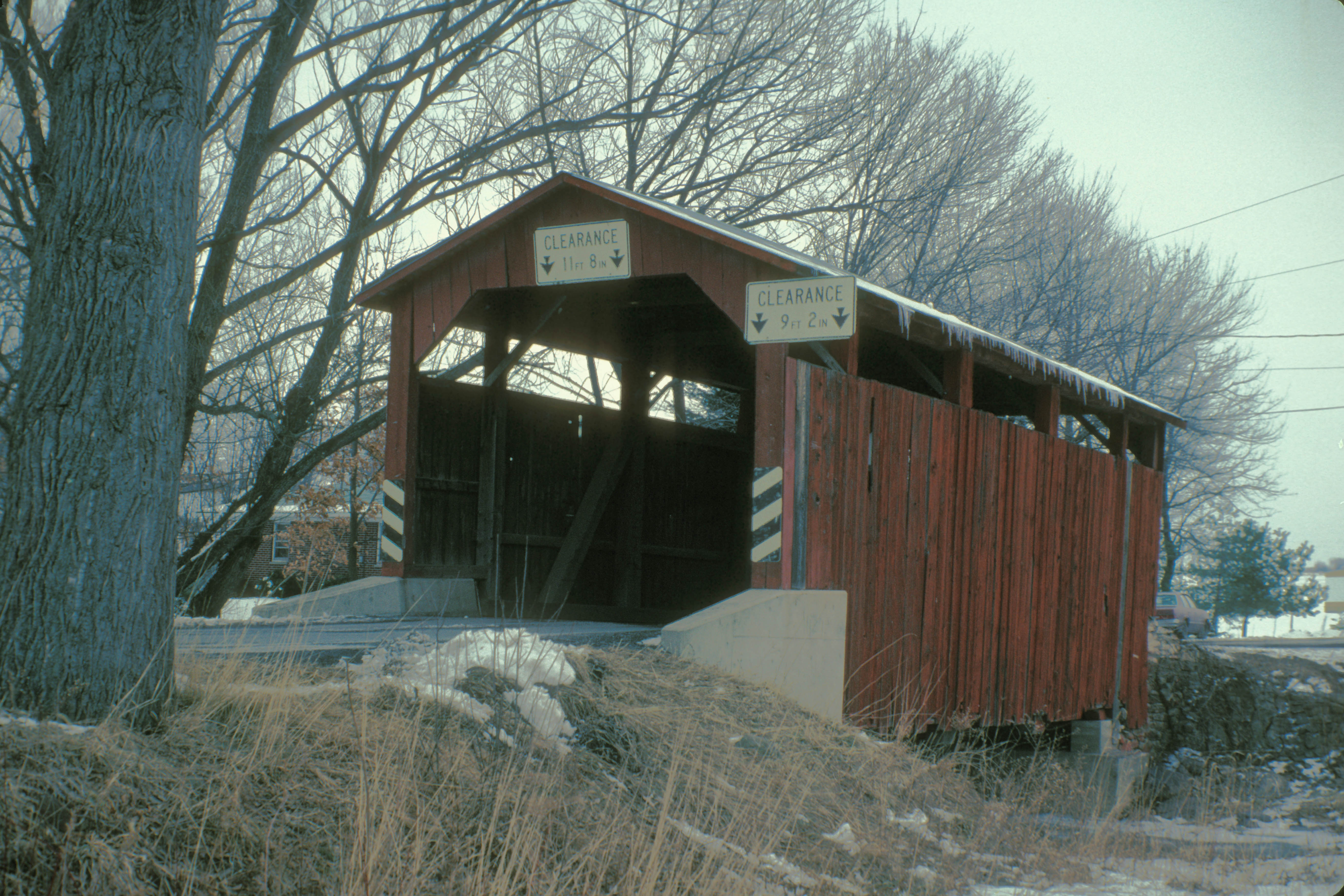 FOWLERSVILLE CB OVER BRIAR CREEK; 1887 QUEEN; 44’; NAMED FOR FOWLER FAMILY WHO SETTLED HERE AFTER THE REVOLUTIONARY WAR